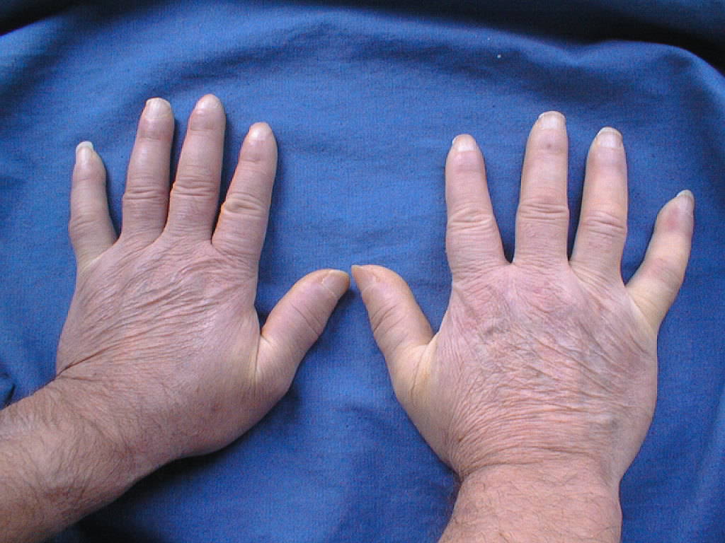 Dark, shiny skin on distal phalanges of both hands in systemic sclerosis Srpskohrvatski / српскохрватски: Tamna, napeta i sjajna koža na krajnjim člancima prstiju kod sistemne skleroze. Promjene su uvijek obostrane.